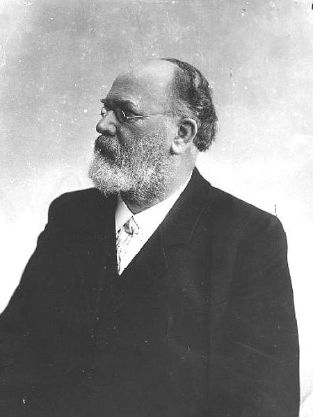 Carl Bruno Troendlin (1835–1908), German national-liberal politician, “Oberbuergermeister” (mayor) in Leipzig